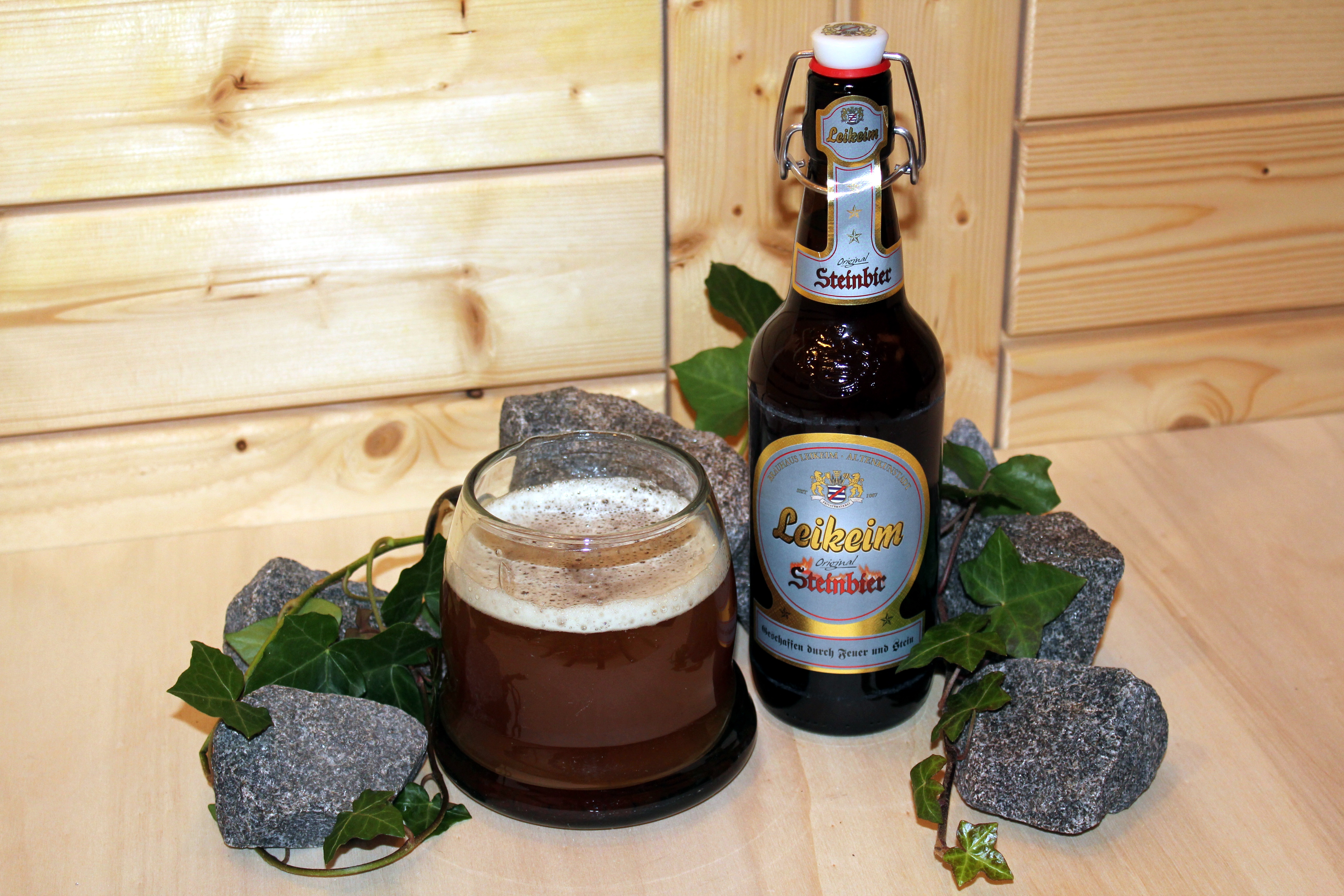 Stonebeer of the frankonian brewery "Leikeim" in the original 0,5L bottle and in a Beer stein, decorated with ivy and some stones, almost identical (or maybe indeed identical) with the ones which are used for producing Steinbier